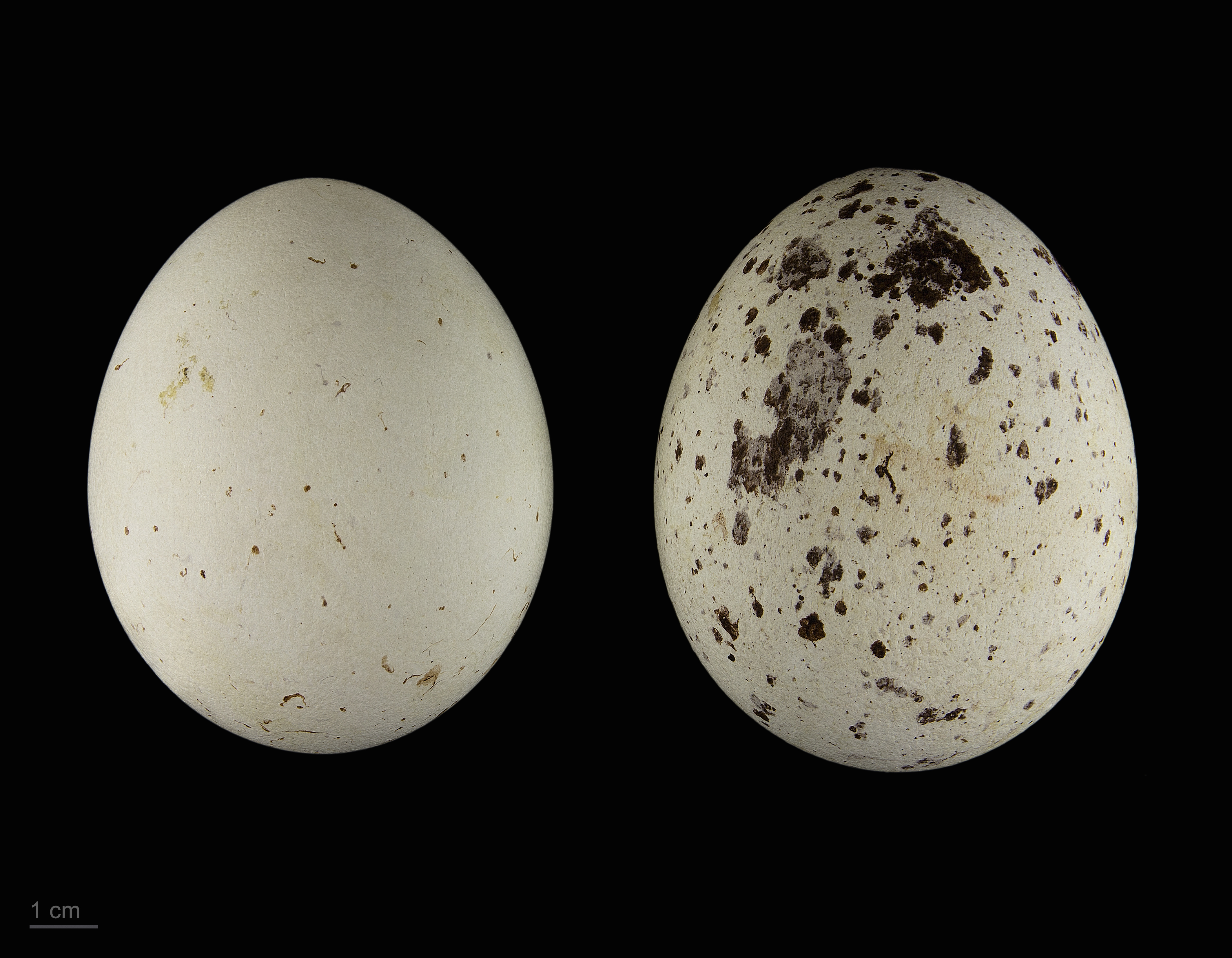 Eggs of golden eagle Two specimens of the same spawn ; collection of Jacques Perrin de Brichambaut.